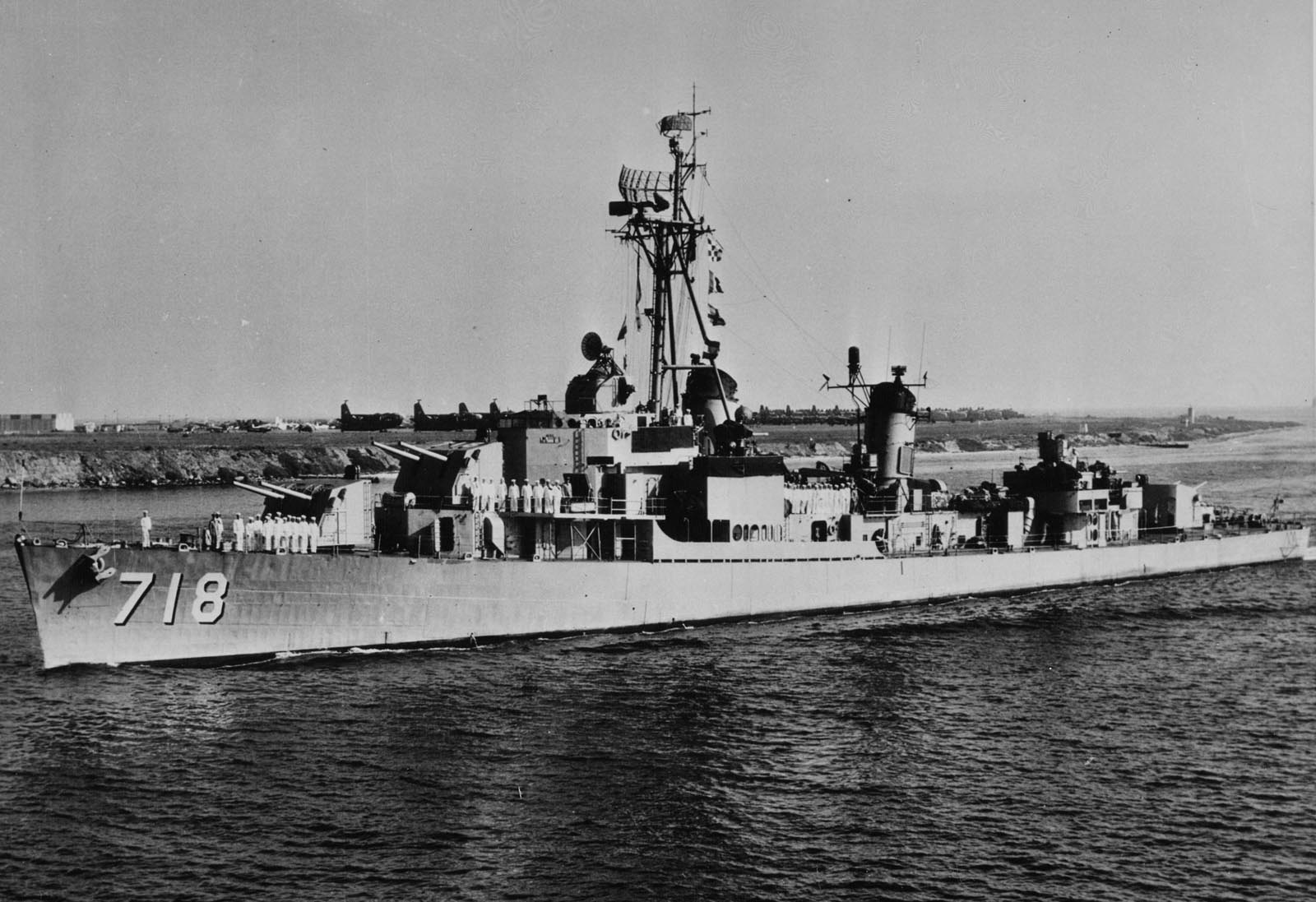 The U.S. Navy destroyer USS Hamner (DD-718) off North Island, California (USA), circa in the mid-1950s. Note the Martin P5M-1 Marlins and Consolidated P4Y-2 Privateers in the background.